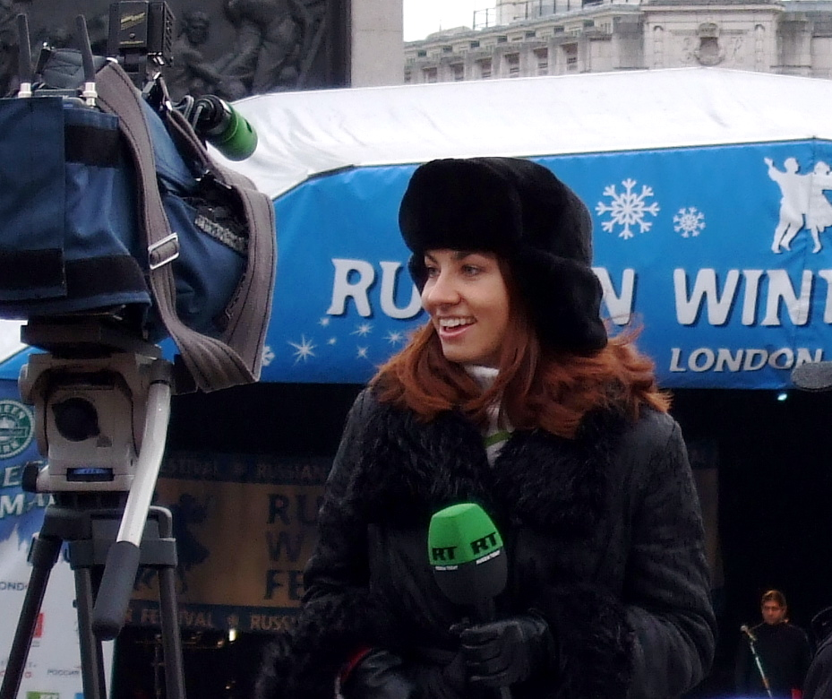 Couldn't decide whether she was reporting live - certainly she spent a while waiting in front of the camera. And it wasn't that cold...